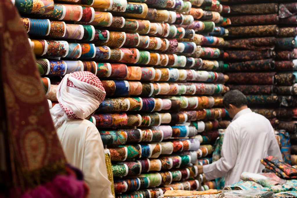 A textile shop in Mecca